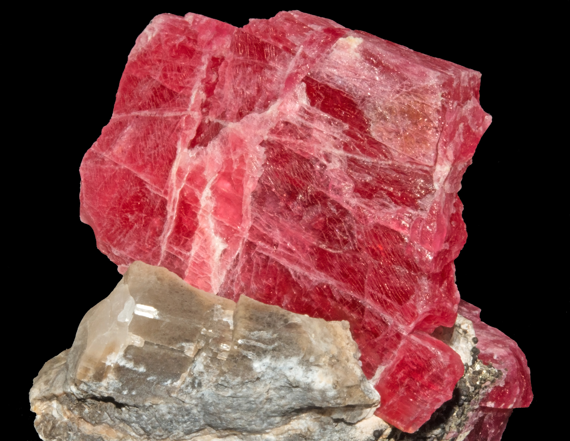 Rhodonite, pyrite, quartz : Morro da Mina Mine, Conselheiro Lafaiete (Queluz de Minas), Minas Gerais, Brazil